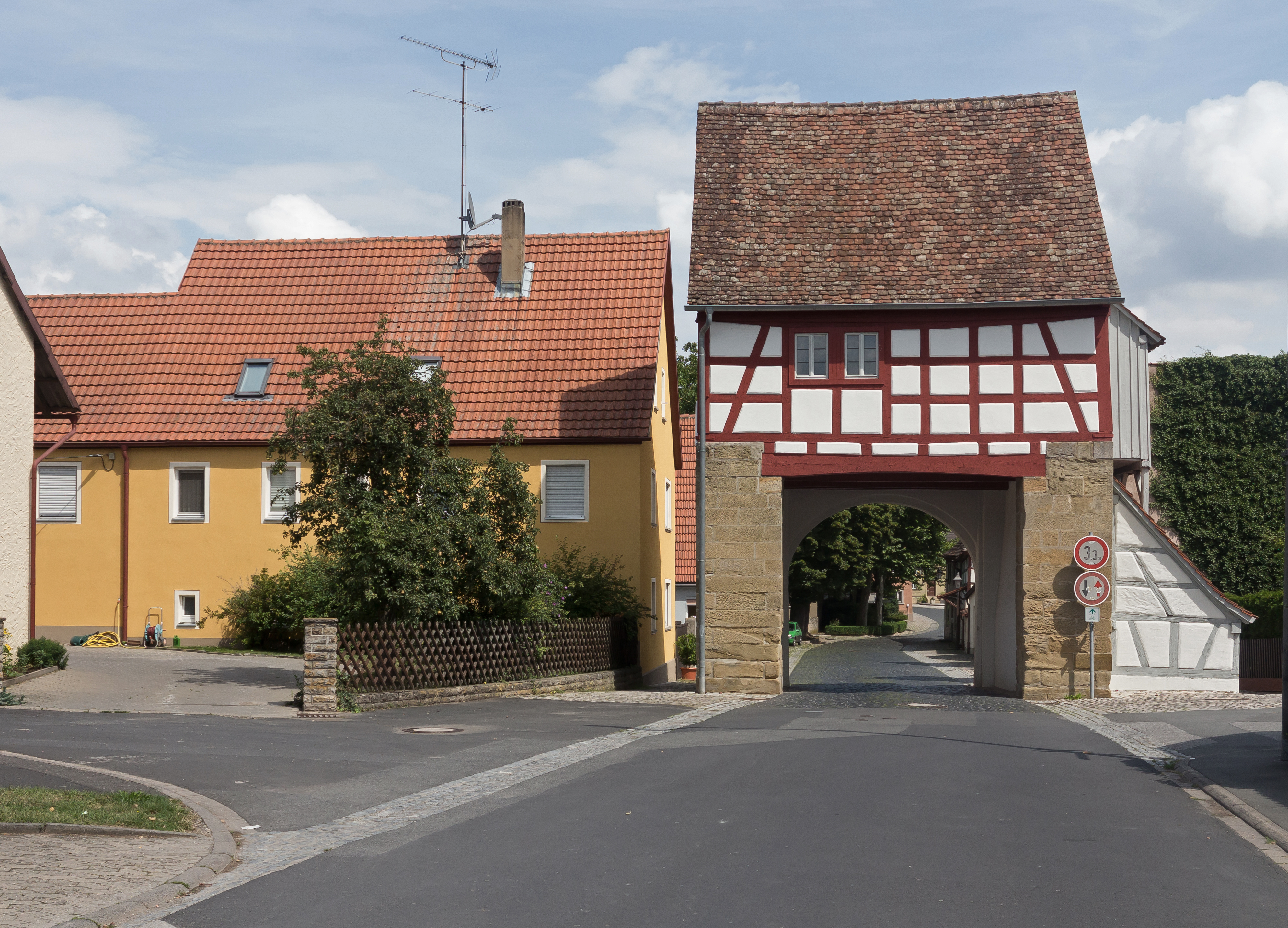 Markt Einersheim, towngate: das sogenanntes Würzbürger TorThis is a photograph of an architectural monument.